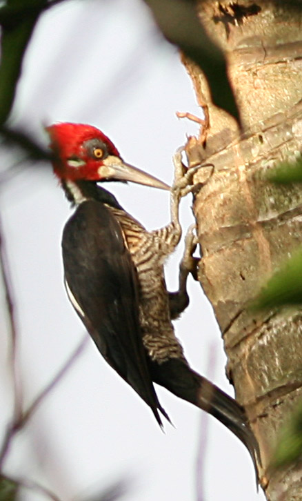 Male Crimson-crested Woodpecker, Orinoco Delta, Venezuela